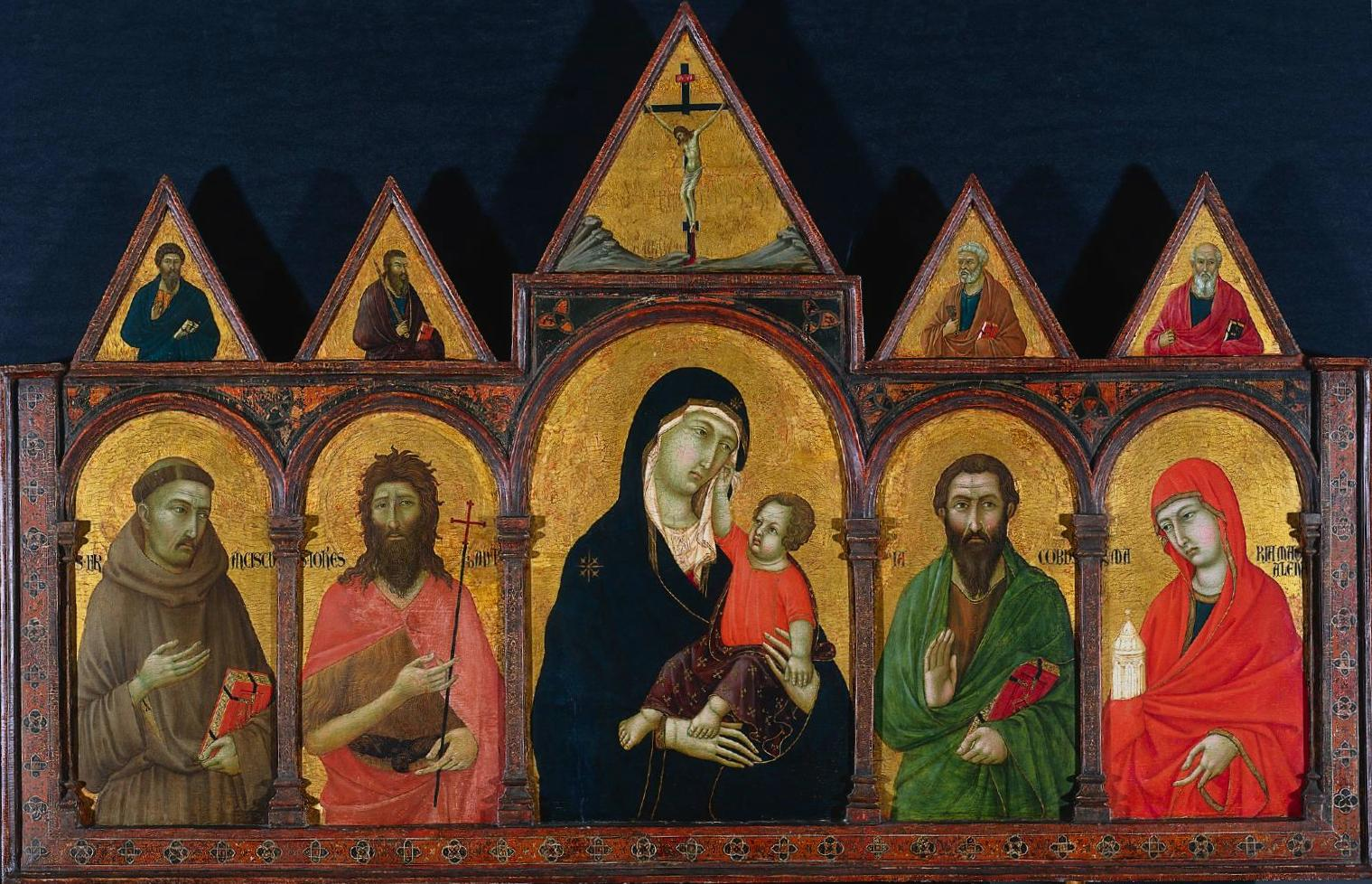 Virgin and Child with Saints